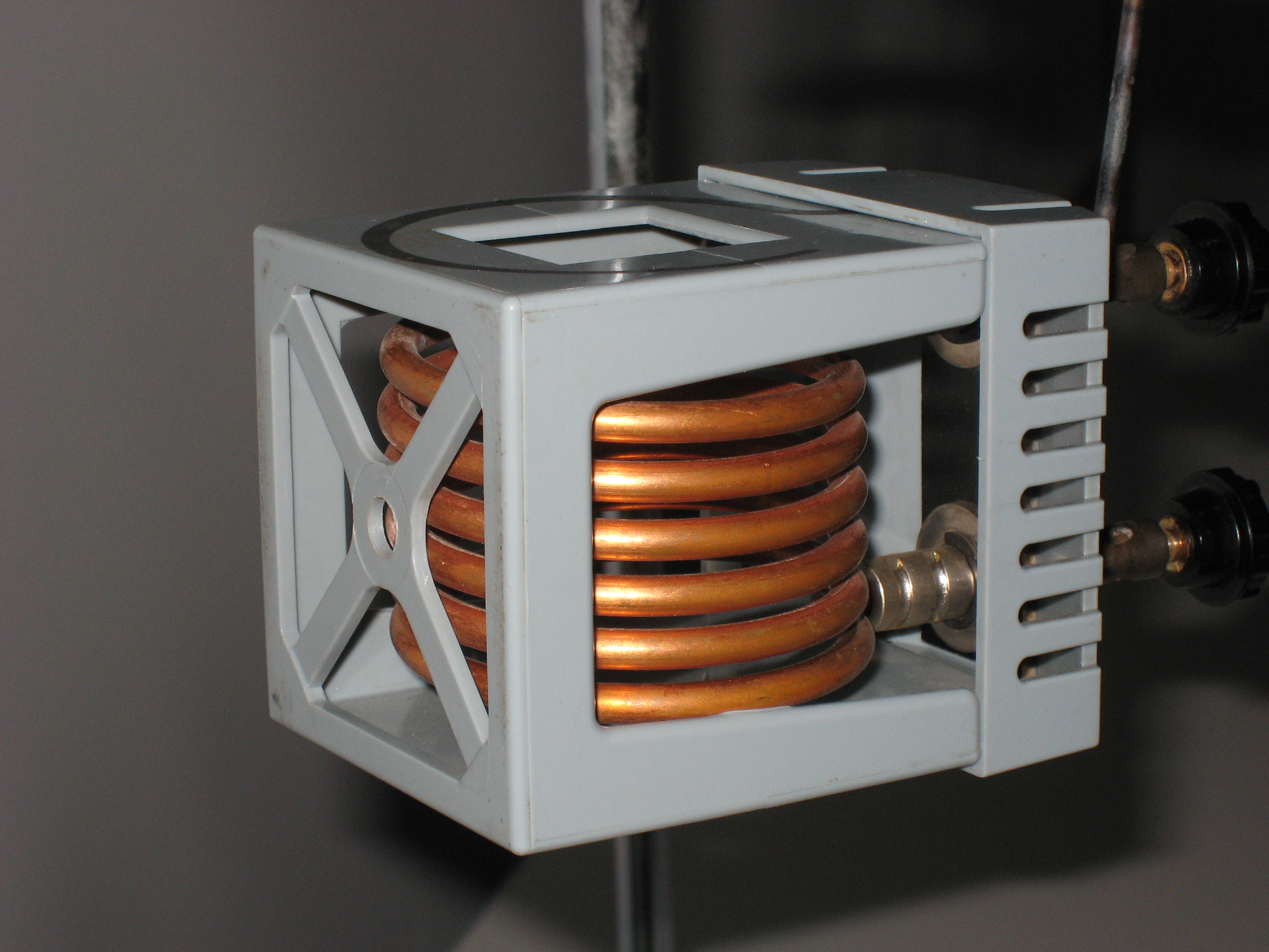 An inductor for physical experiment